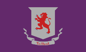 The official flag of Talbot County, Maryland, adopted on December 31, 1963 by the Talbot County commissioners. It was created by the Historical Society of Talbot County.